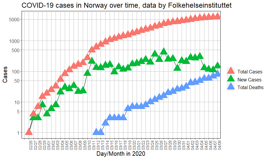 Rplot16